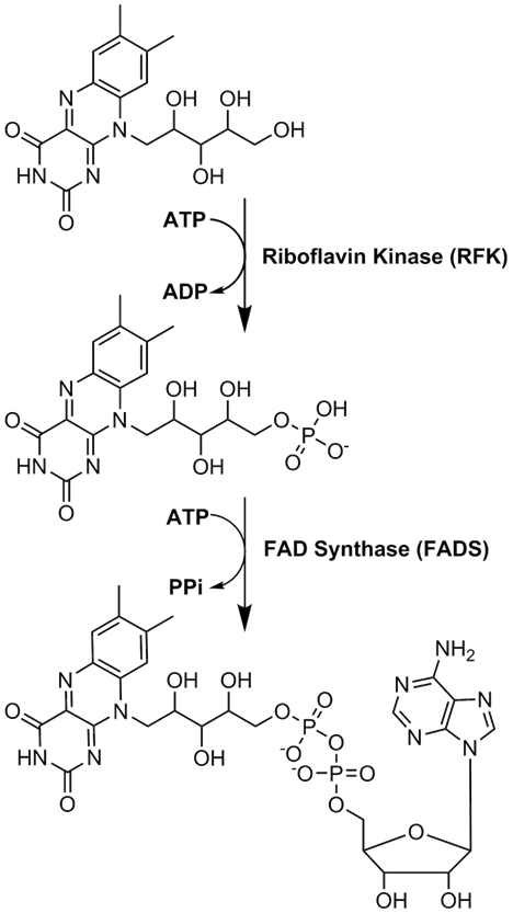 Shows the chemical reactions producing FAD from riboflavin.